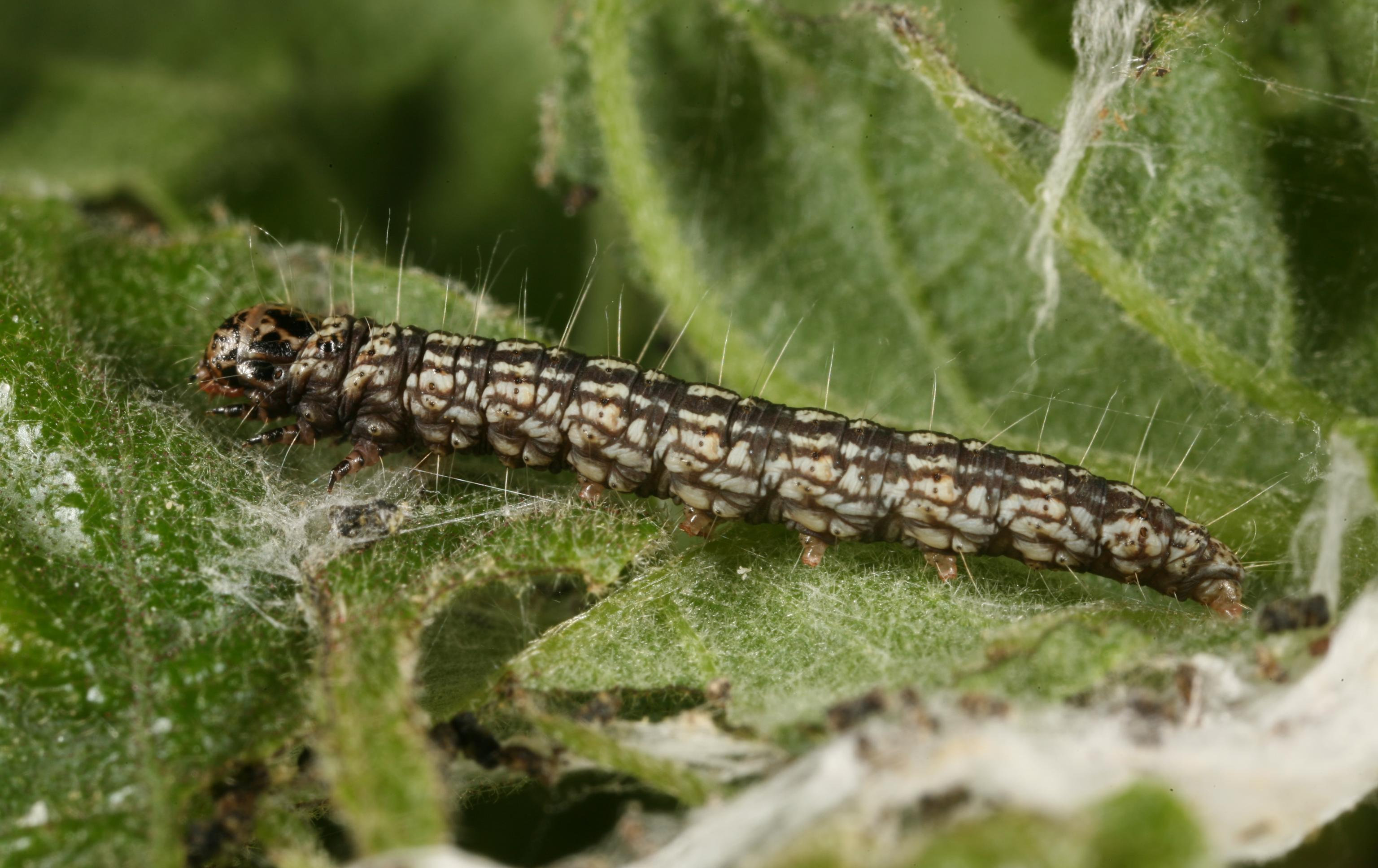 Acrobasis consociella Host: oak Quercus spp. L. Common Name: Pyralid moth Photographer: Gyorgy Csoka, Hungary Forest Research Institute, Hungary Descriptor: Larva(e) Image taken in: United States